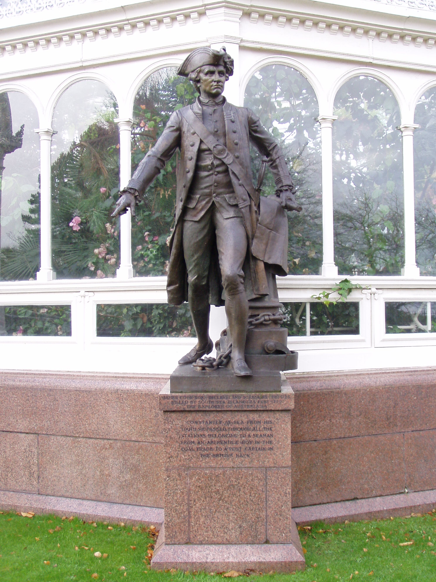 Details from the Palm house in Sefton Park, Liverpool by Léon Chavalliaud Description French sculptor Authority control : Q1879407